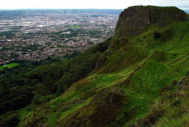 McArts Fort and Cave Hill Country park, Belfast The upper sections of Cave Hill Country Park with McArts Fort dominating on the right, 1200 feet above sea level. Belfast is seen in the distance below.